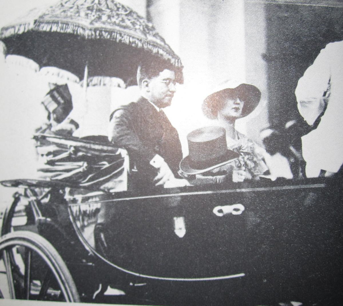 Lord Erskine, the Governor of Madras Presidency, British India and his wife Marjorie Erskine (nee Hervey) in 1930s.